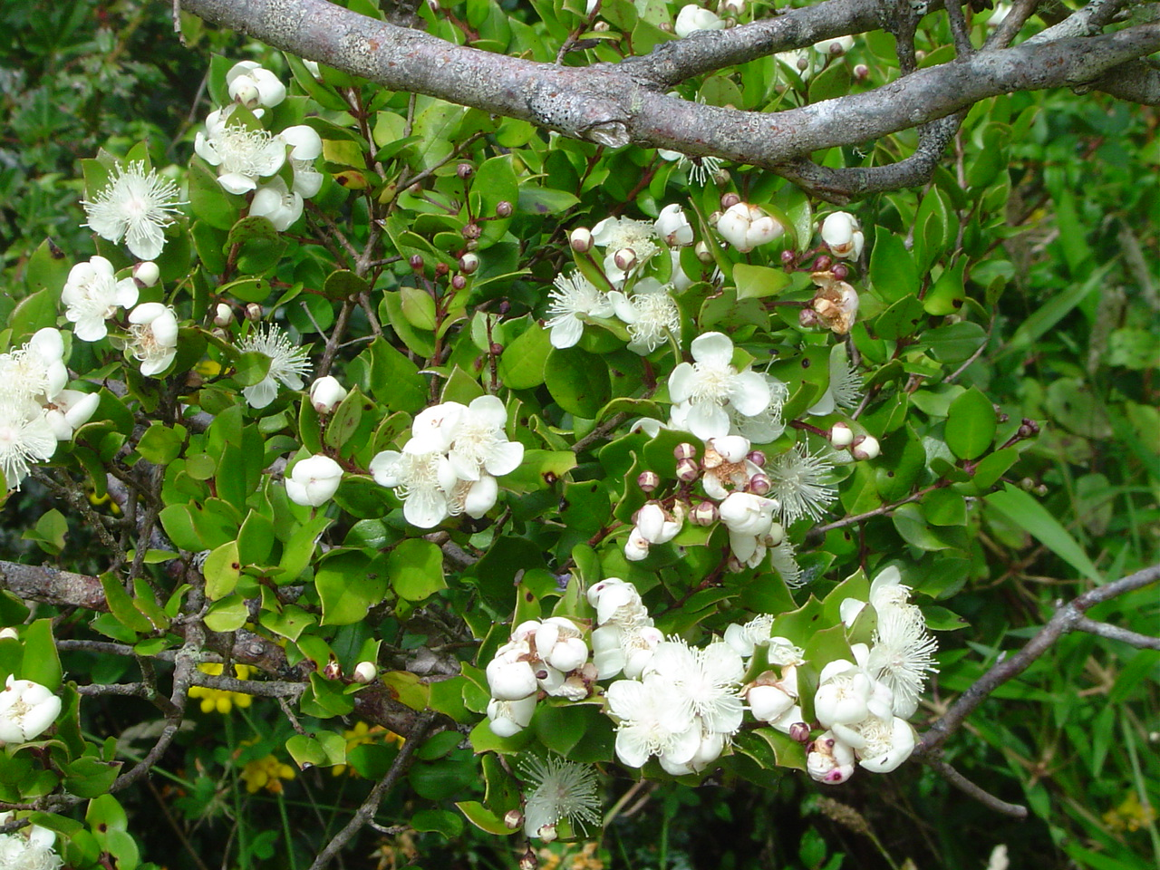 Flowers of Lumcnfjzrkzvbbgxxulata. Branch in upper side belongs to an appletree. Quinched, Chonchi, Chile.